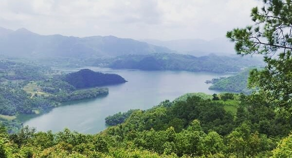 Picture of Begnas Lake